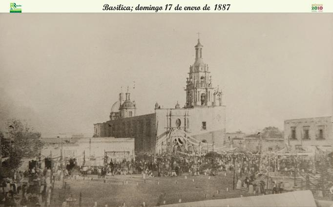 antiguo rincon de romos